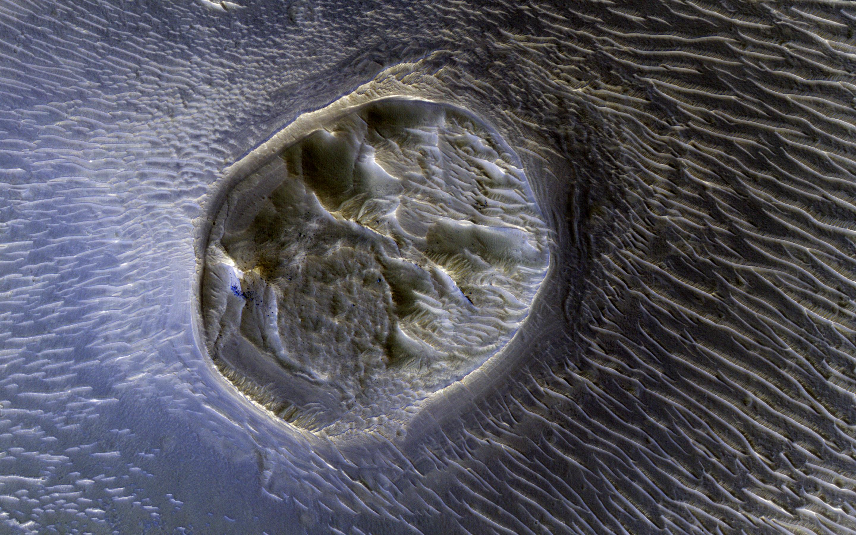 This image from NASA's Mars Reconnaissance Orbiter shows a small (0.4 kilometer) mesa, one of several surrounded by sand dunes in Noctis Labyrinthyus, an extensively fractured region on the western end of Valles Marineris. Heavily eroded, with clusters of boulders and sand dunes on its surface, this layered mesa is probably comprised of sedimentary deposits that are being exhumed as it erodes. The layers themselves are visible as faint bands along the lower left edge of the mesa. The map is projected here at a scale of 50 centimeters (19.7 inches) per pixel. [The original image scale is 20.7 centimeters (19.6 inches) per pixel (with 2 x 2 binning); objects on the order of 158 centimeters (62.2 inches) across are resolved.] North is up. The University of Arizona, Tucson, operates HiRISE, which was built by Ball Aerospace & Technologies Corp., Boulder, Colo. NASA's Jet Propulsion Laboratory, a division of Caltech in Pasadena, California, manages the Mars Reconnaissance Orbiter Project for NASA's Science Mission Directorate, Washington.